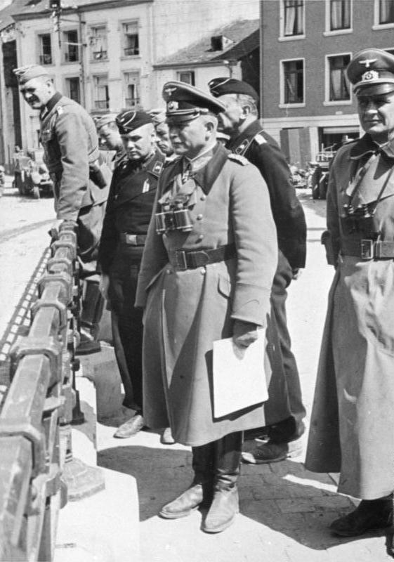 General Guderian in Bouillon 12.5.1940 Information added by Wikimedia users.